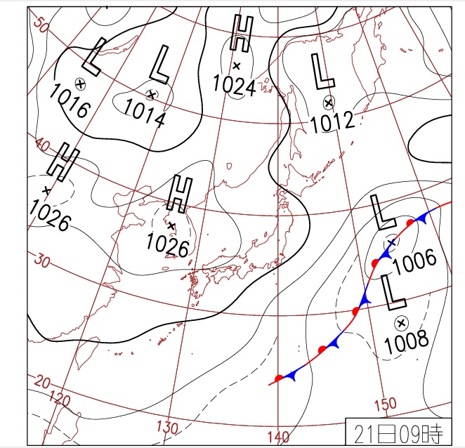 Weather map as of 9 a.m of October 21, 2018(JST)